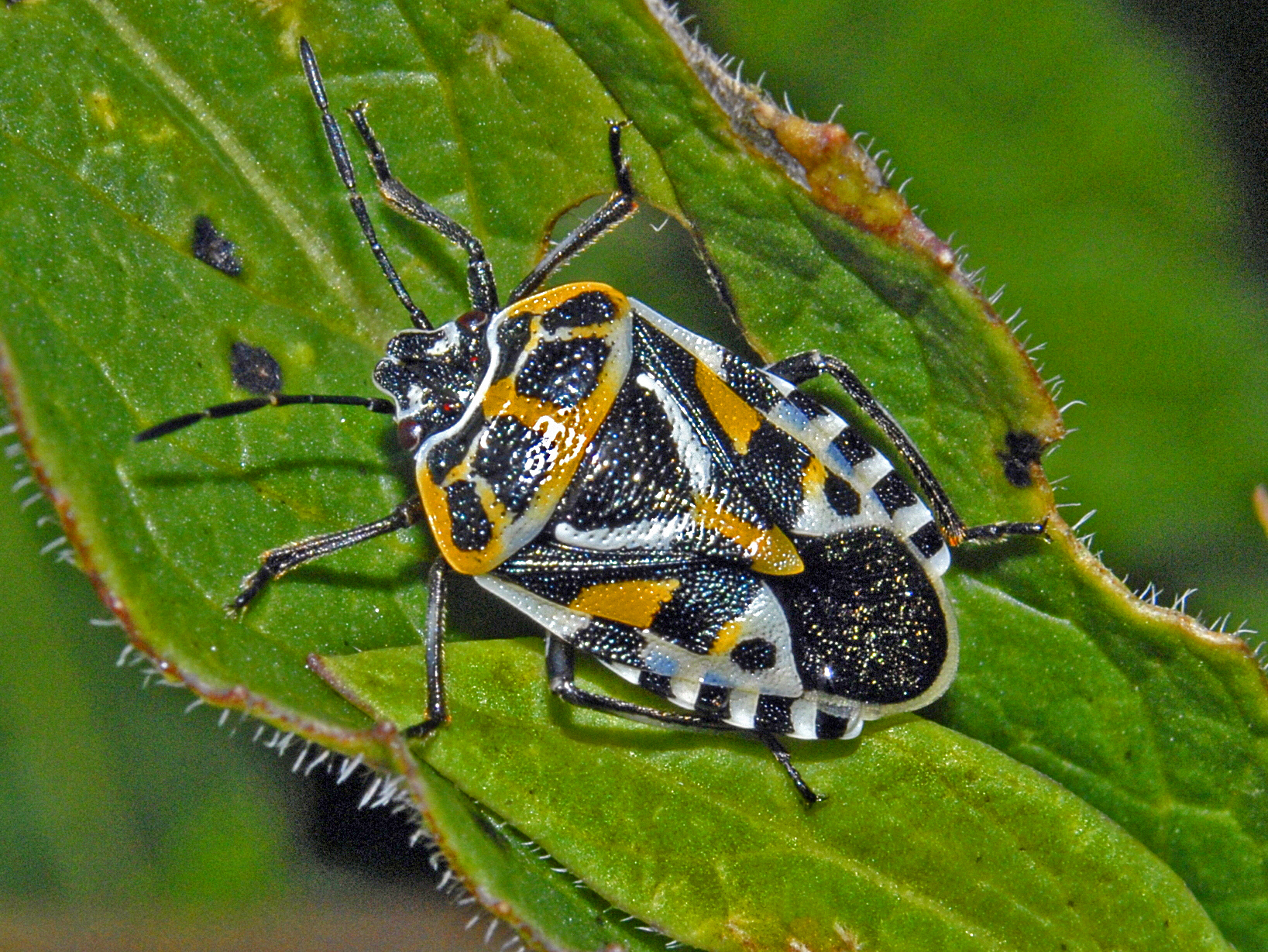 Eurydema ventralis. Young adult. Val Veny, Aosta, Italy